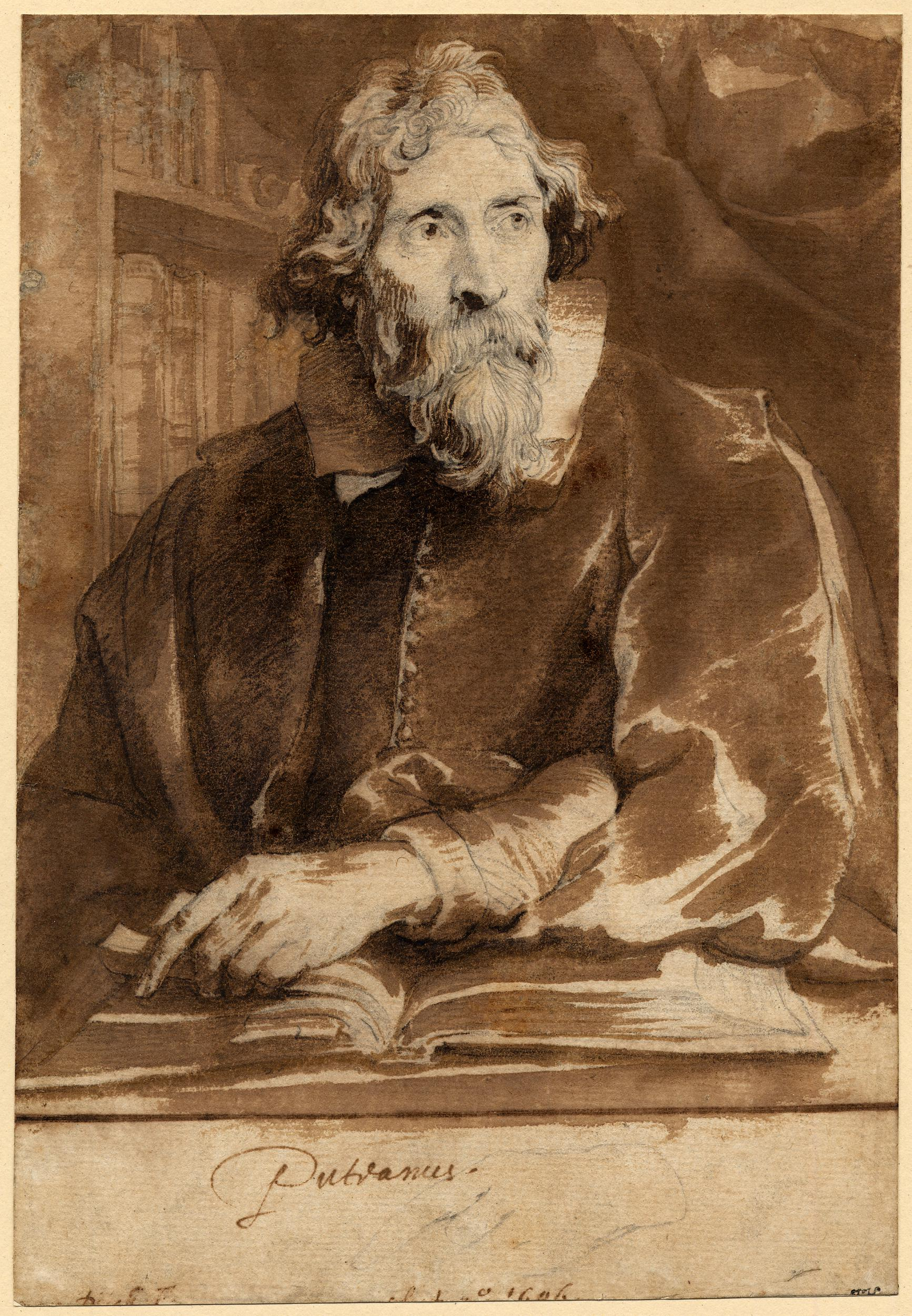 Portrait of Erycius Puteanus